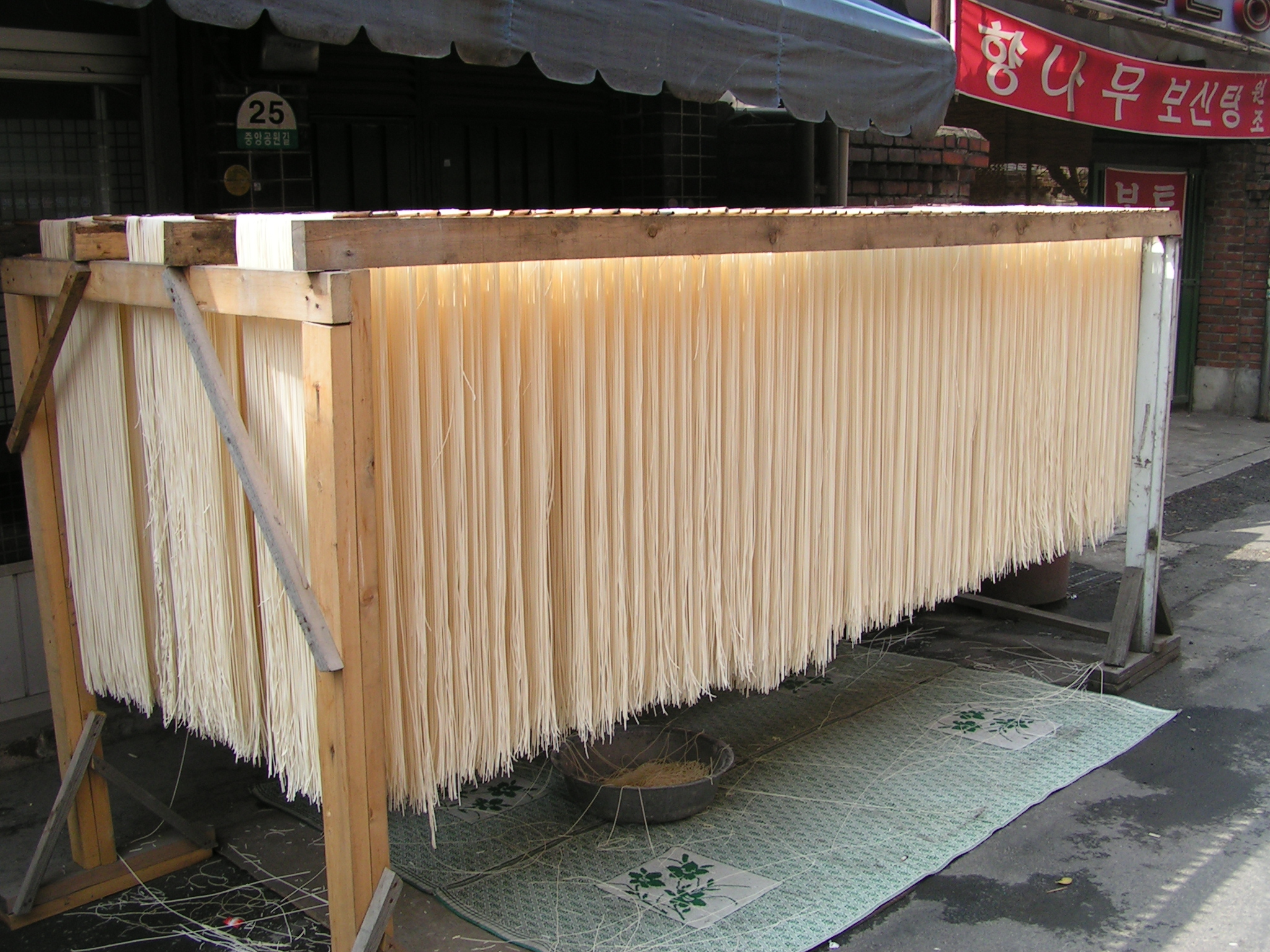 A noodle drying rack in the streets of Seoul, South Korea.